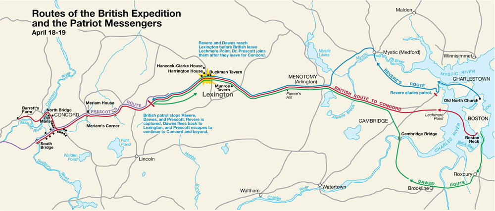 This is a map depiction the outbound routes taken by Patriot riders and British troops in the Battles of Lexington and Concord on April 19, 1775.